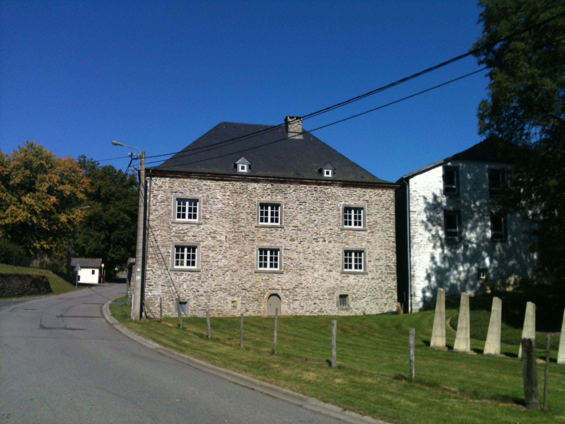 Tavigny - farm of the castle